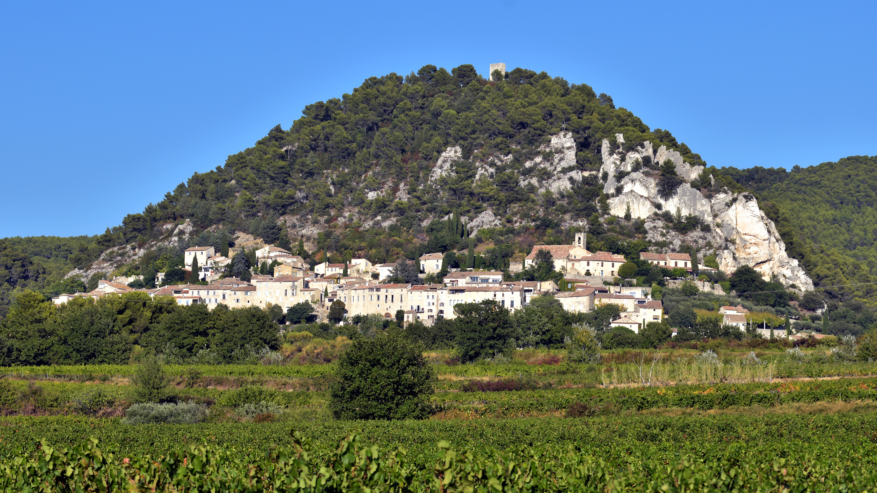 Séguret